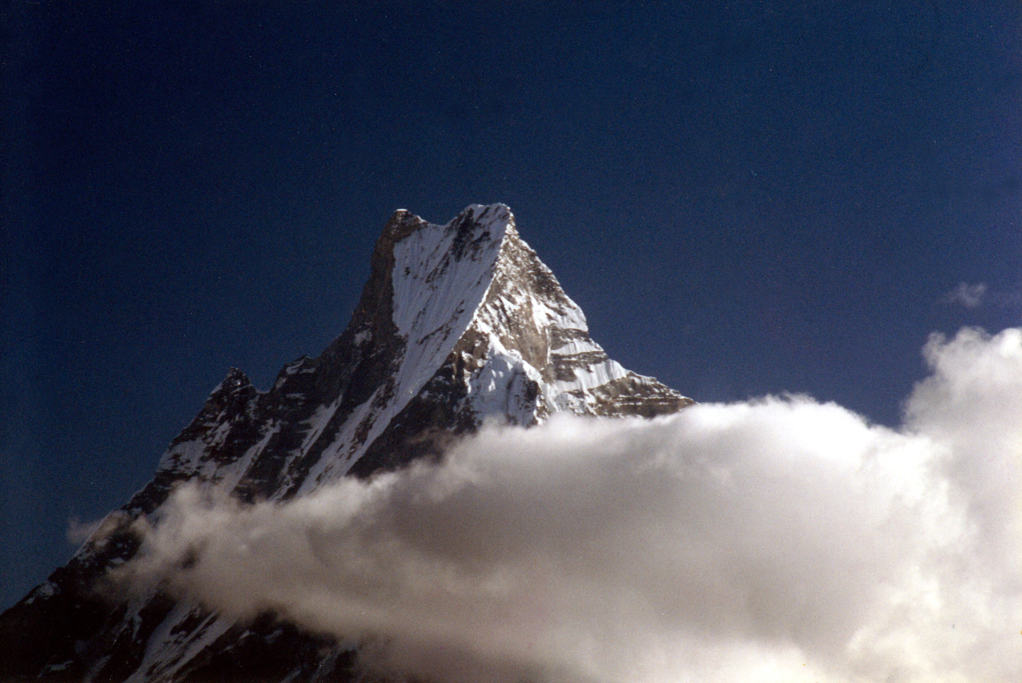 Machapuchare (meaning "Fishtail" in Nepali) seen from Tadapani in Nepal.